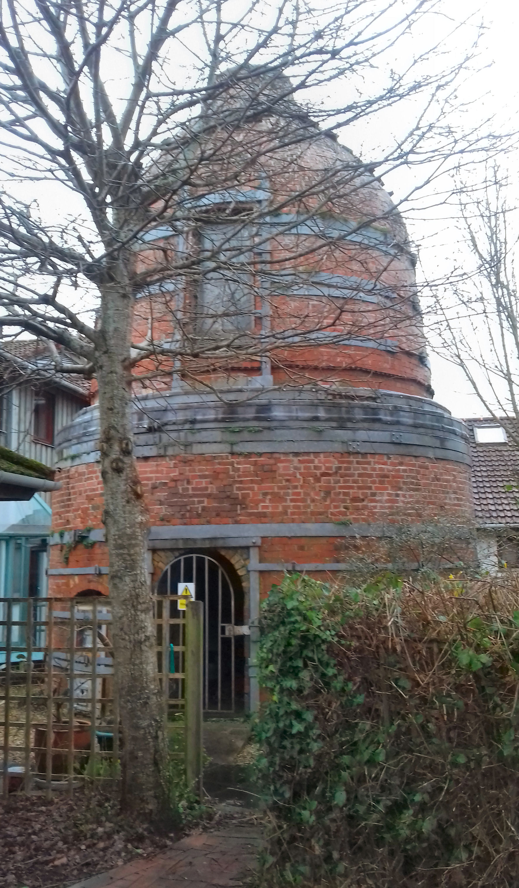 The last surviving kiln from Brannam Pottery at Barnstaple in Devon